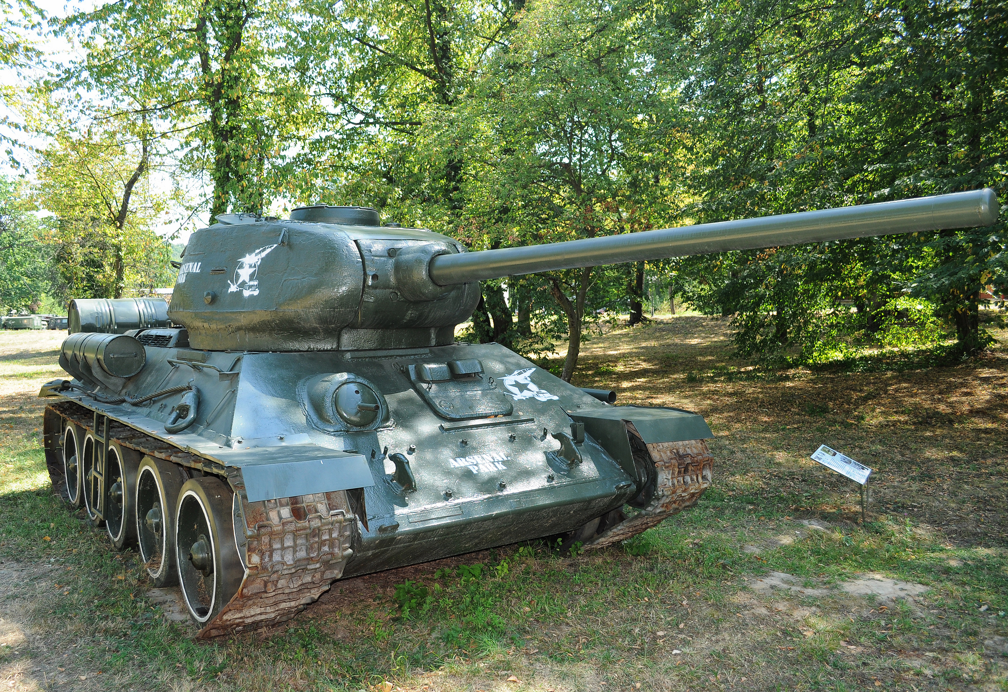 A T-34/85 tank on display at Arsenal Park, Orăștie.